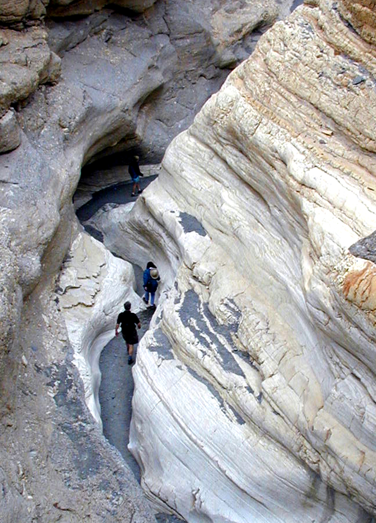 Hikers walk through the narrows of Mosaic Canyon, Death Valley National Park, California, US.